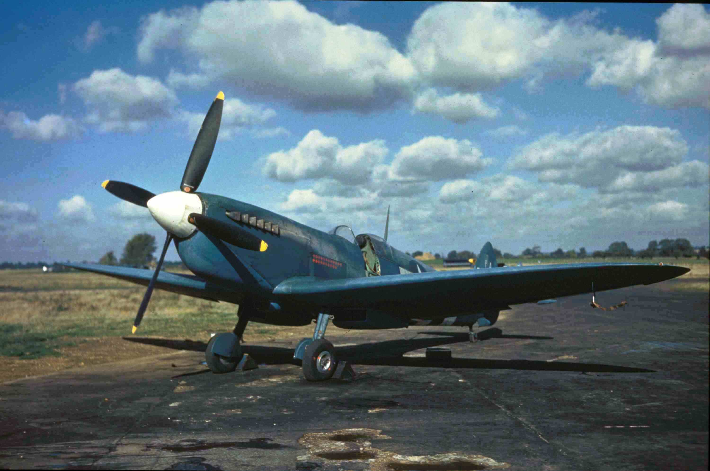 Three-quarter view of Spitfire PR Mk XI PA944 of the 7th Photographic Reconnaissance Group,14th Recon Squadron at RAF Mount Farm.